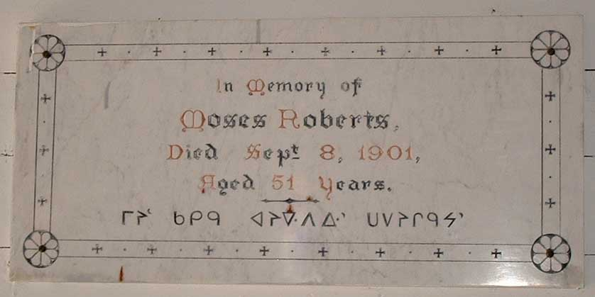 Cree syllabics on gravemarker at Stanley Mission, Saskatchewan, Canada